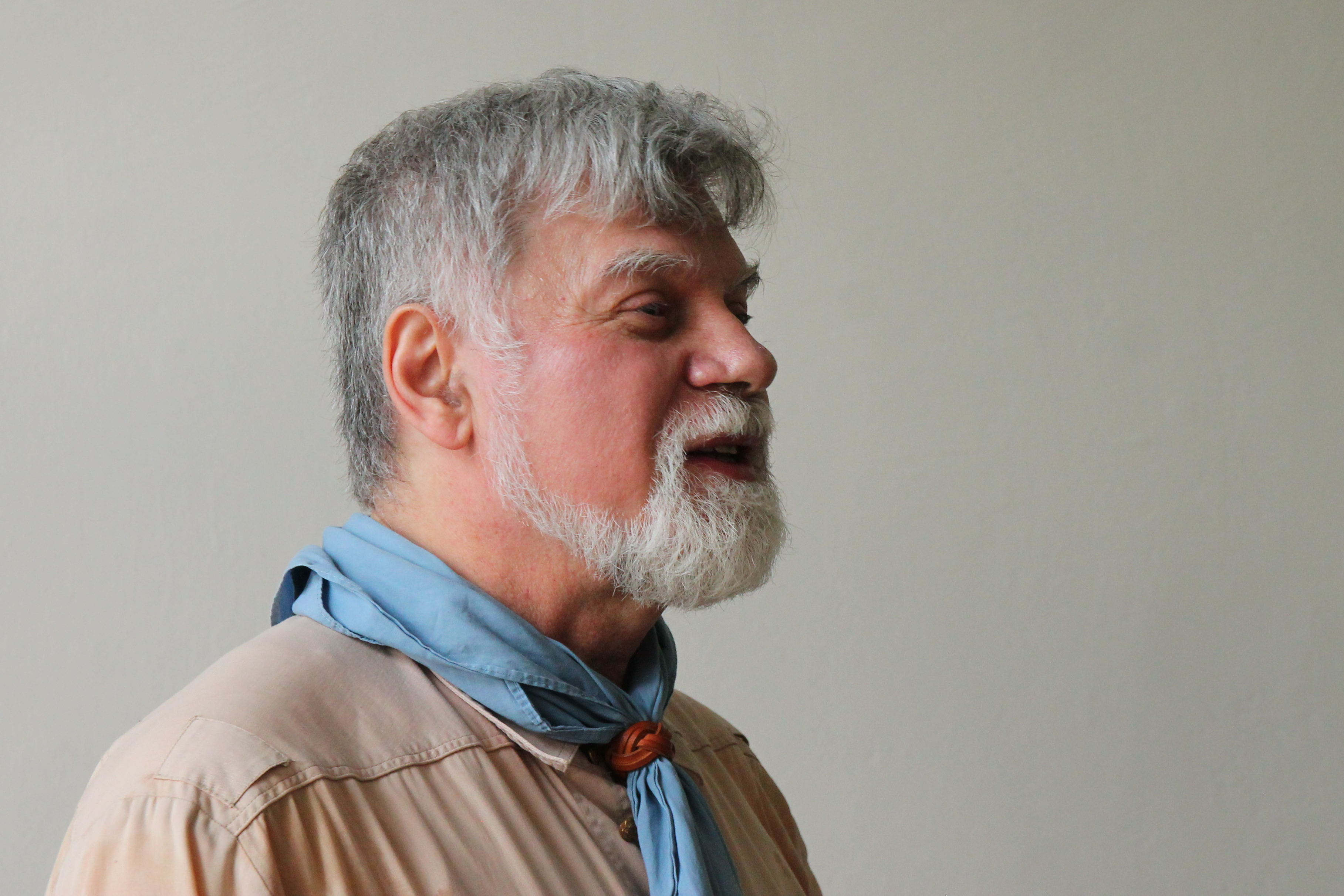 Jiří „Edy“ Zajíc giving speech to Czech scouts during MiQuik